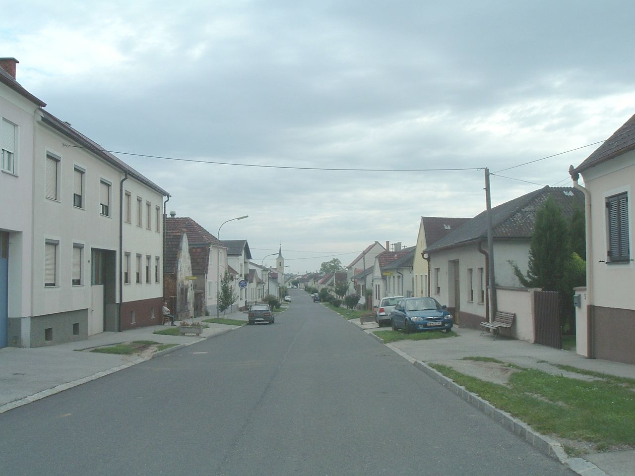 Miedlingsdorf (Mérem), Burgenland